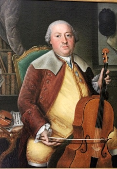 Philipp Damian von Hoensbroech bzw. Hoensbroek (1724-1793) Bischof von Roermond